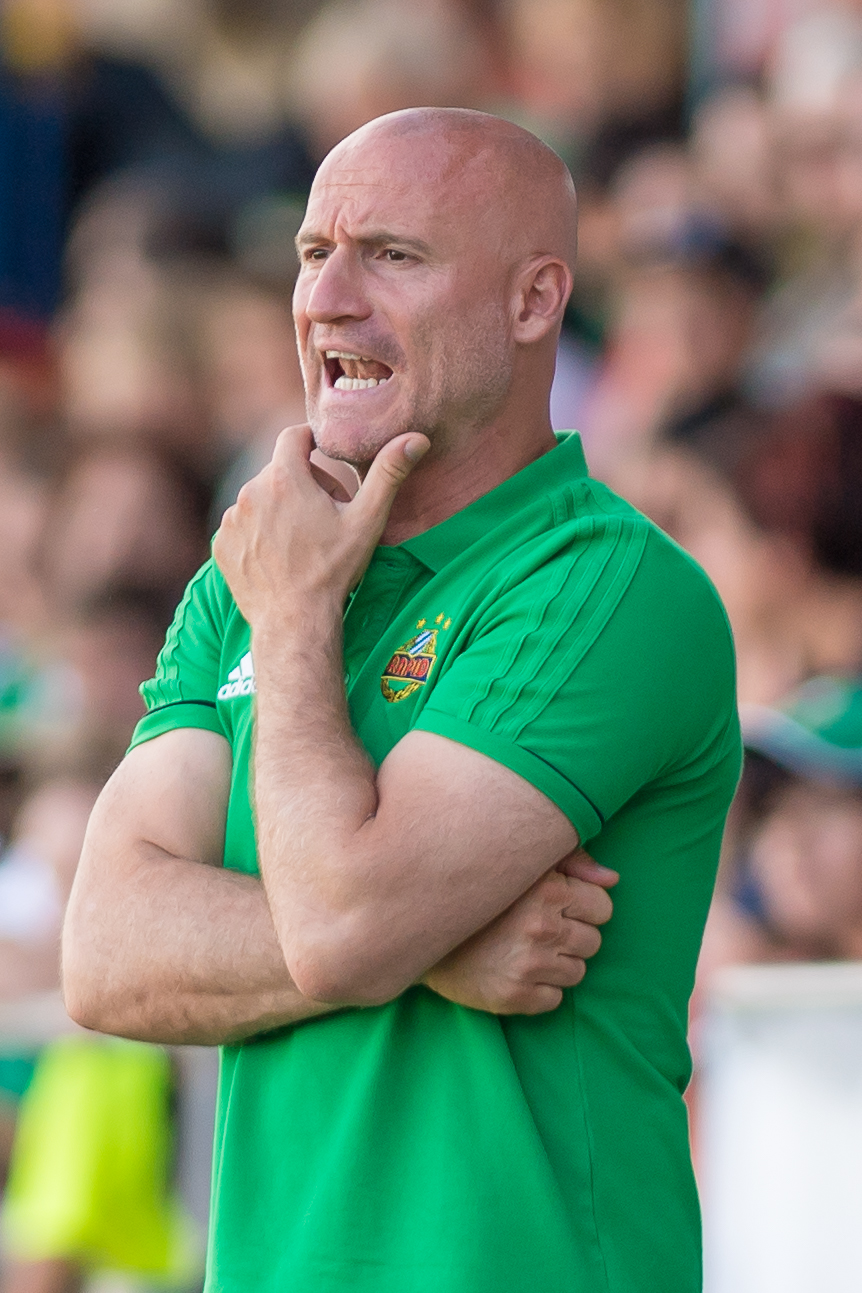 1/7/2017, Amstetten, Austria, sports, soccer, Tipico Fussball Bundesliga - preparation match SK Rapid Wien vs Celtic Glasgow. Image shows coach Goran Djuricin (SCR).